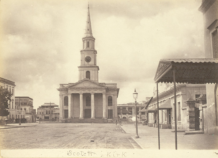 St. Andrew's Church at Dalhousie Square, Calcutta